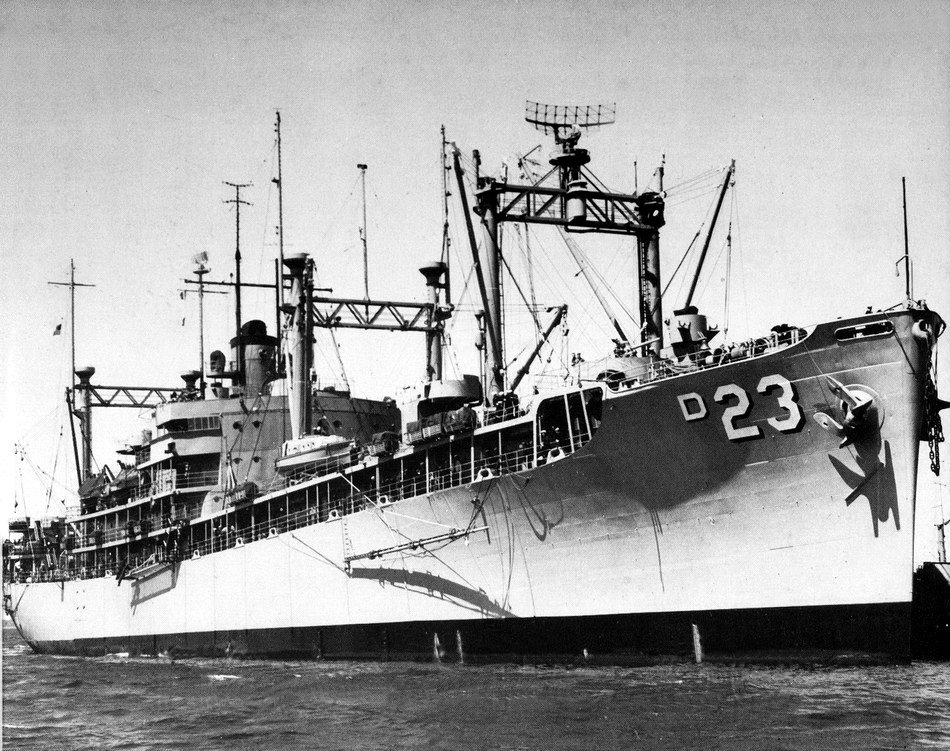 The U.S. Navy destroyer tender USS Arcadia (AD-23), circa in 1958.